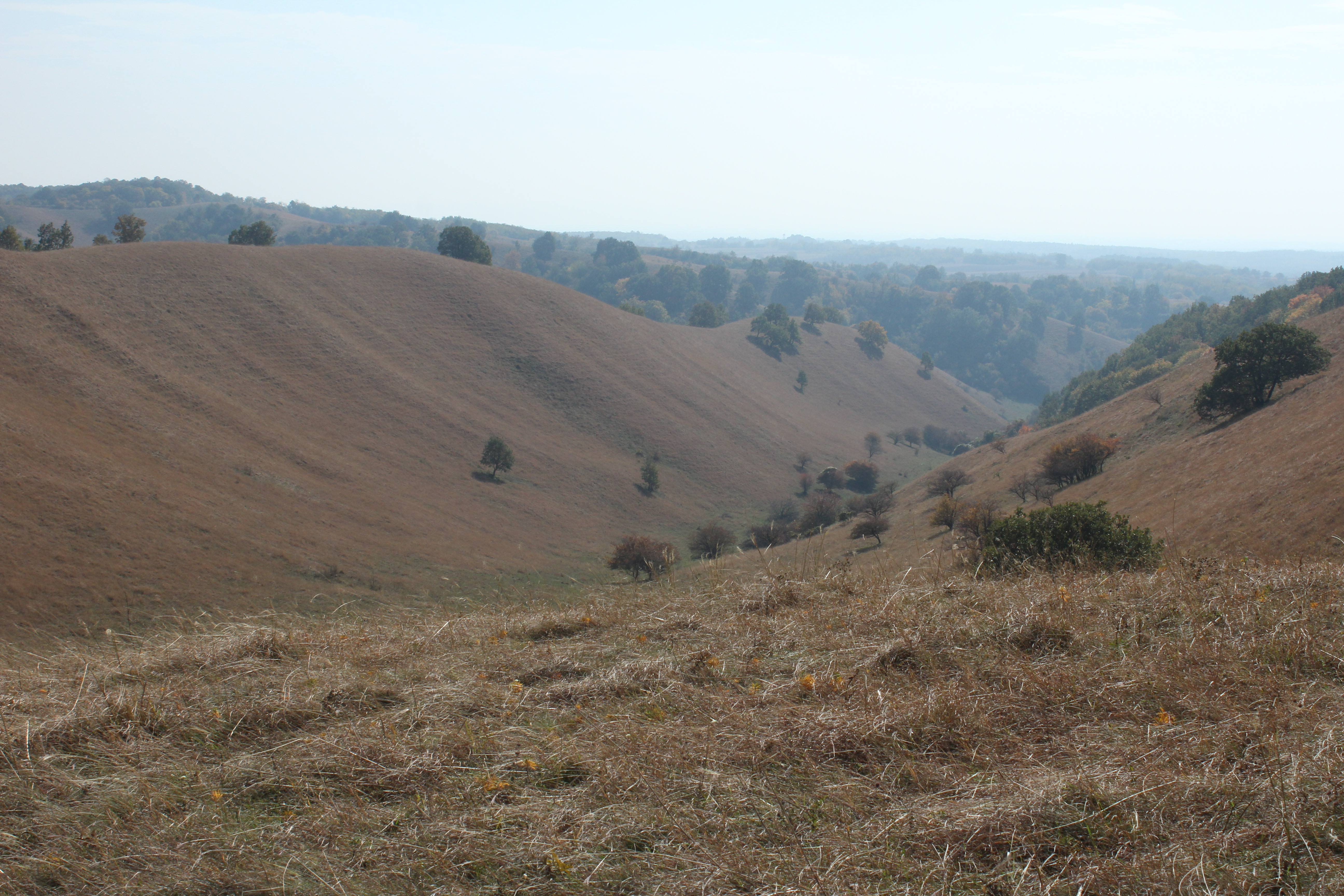 View of sandy hills in Deliblatska pescara, Serbia